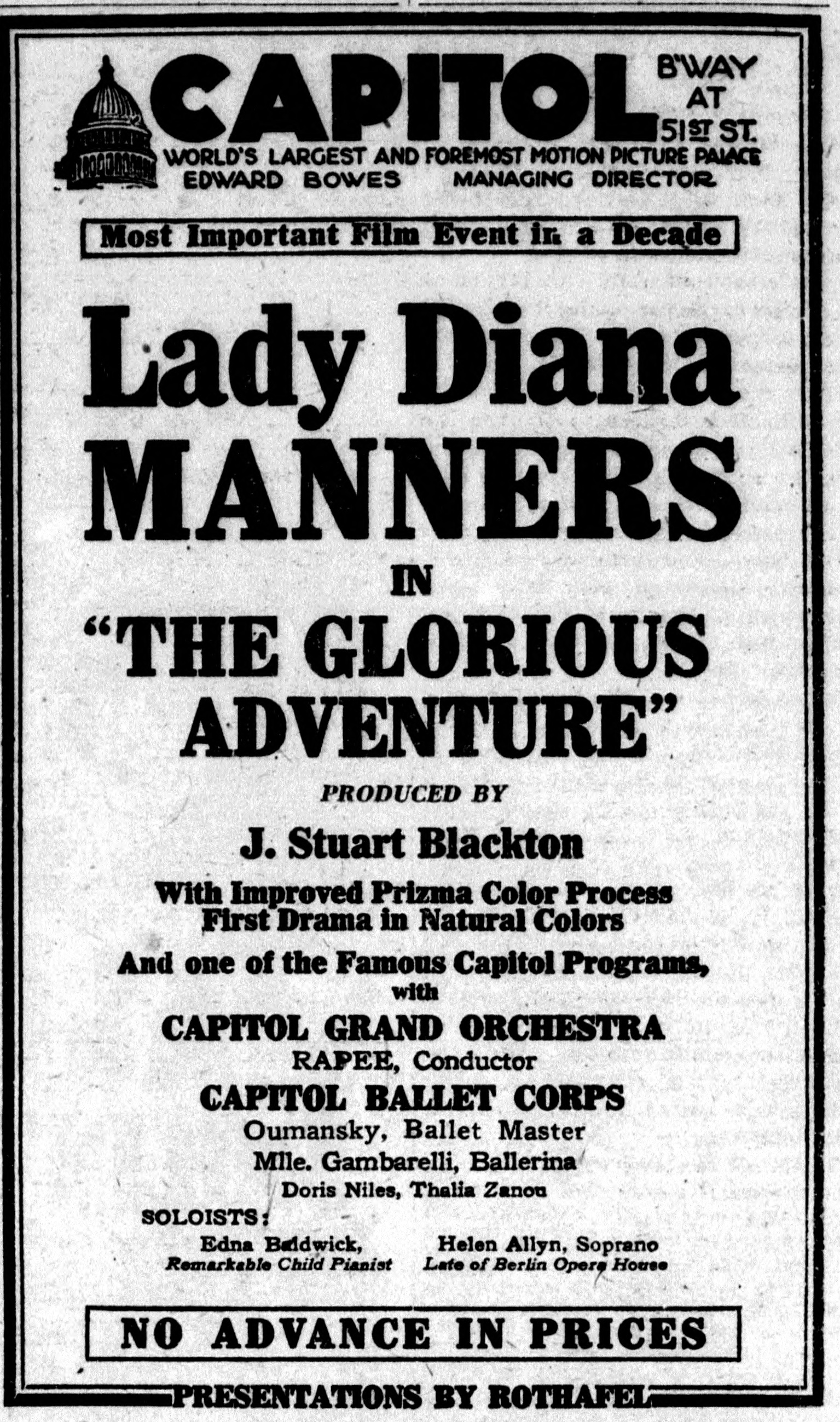 Advertisement for The Glorious Adventure (1922), a British Prizmacolor feature film directed by J. Stuart Blackton, written by Felix Orman. The ad does not contain any images from the film.